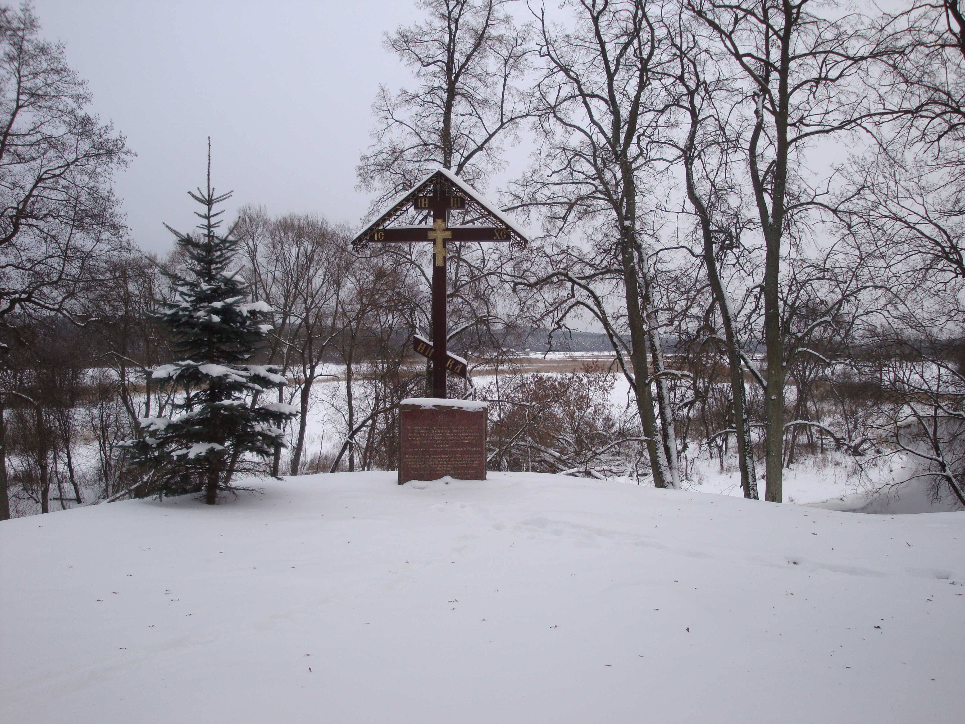 Cross to memmorize foundation of Supraśl Monastery in Supraśl, Poland. River Supraśl in background.